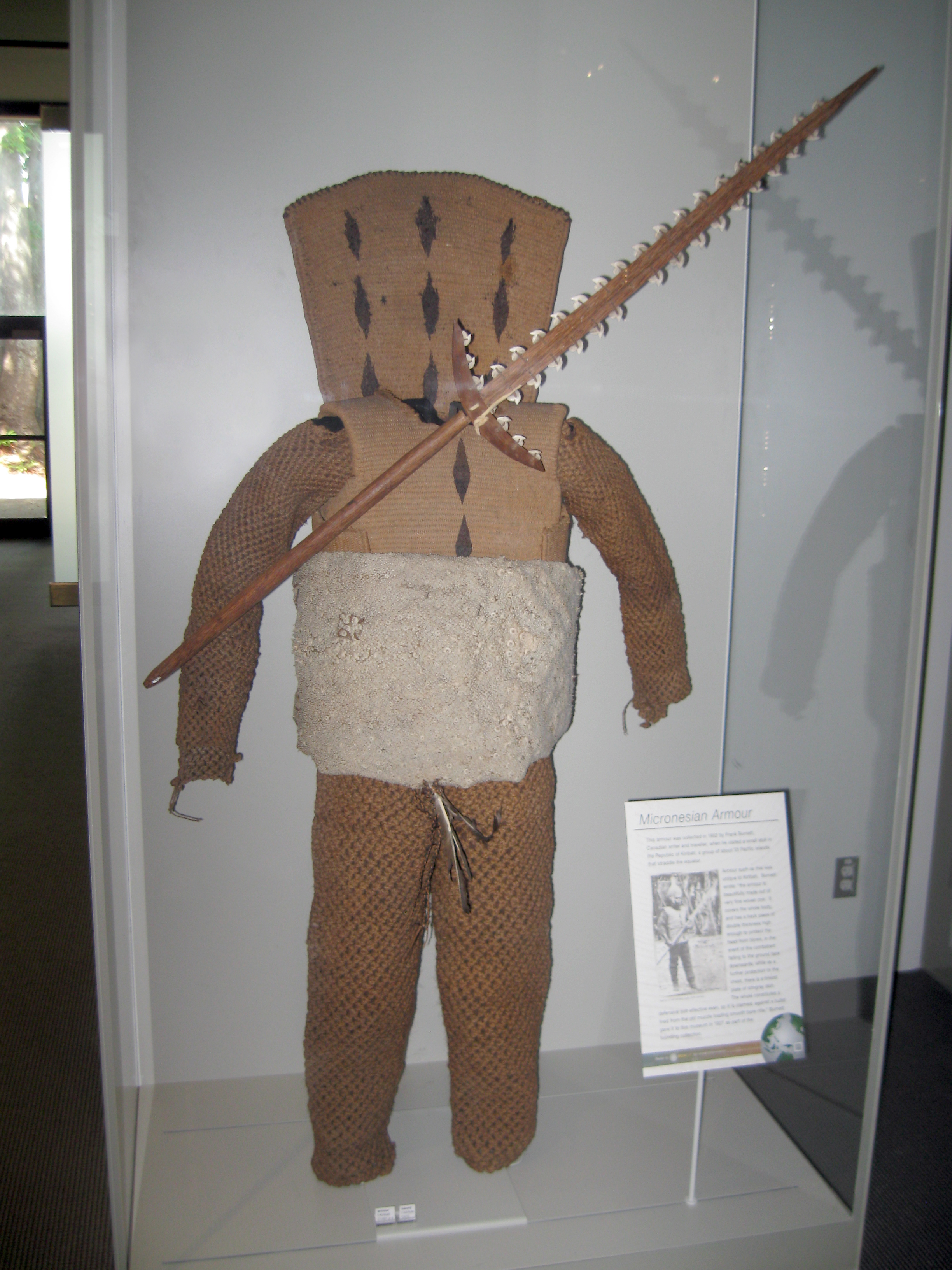 This is an excellent example of early 20th century Micronesian Armour collected by Frank Burnett, a Canadian writer, in Kiribati in 1902. The armour is made of finely woven coir that covers the whole body and its breastplate is intriguingly made of stingray skin. The neck protector has rows of a diamond design pattern in black on dark brown ground. This item was donated to the UBC Museum of Anthropology in Vancouver, Canada, in 1927 where its museum catalogue number is C1491 a-e